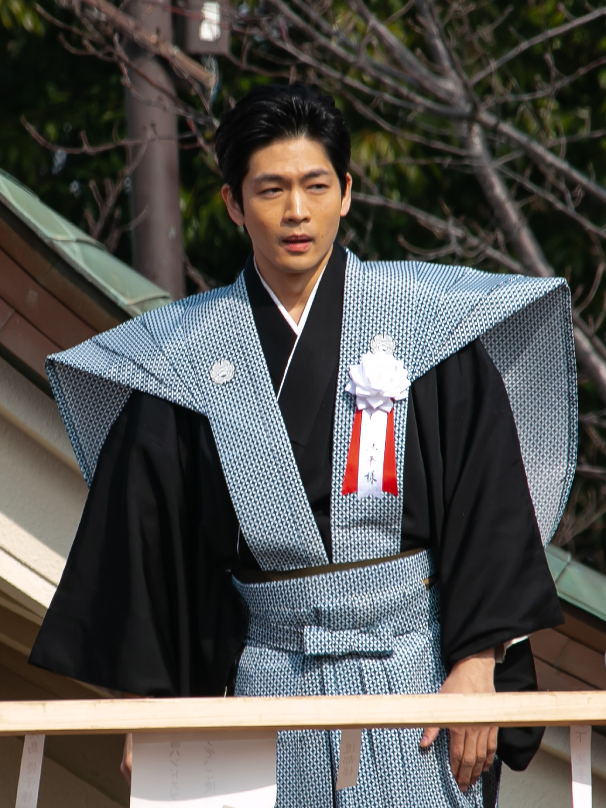 Kohei Matsushita (Actor from Japan).